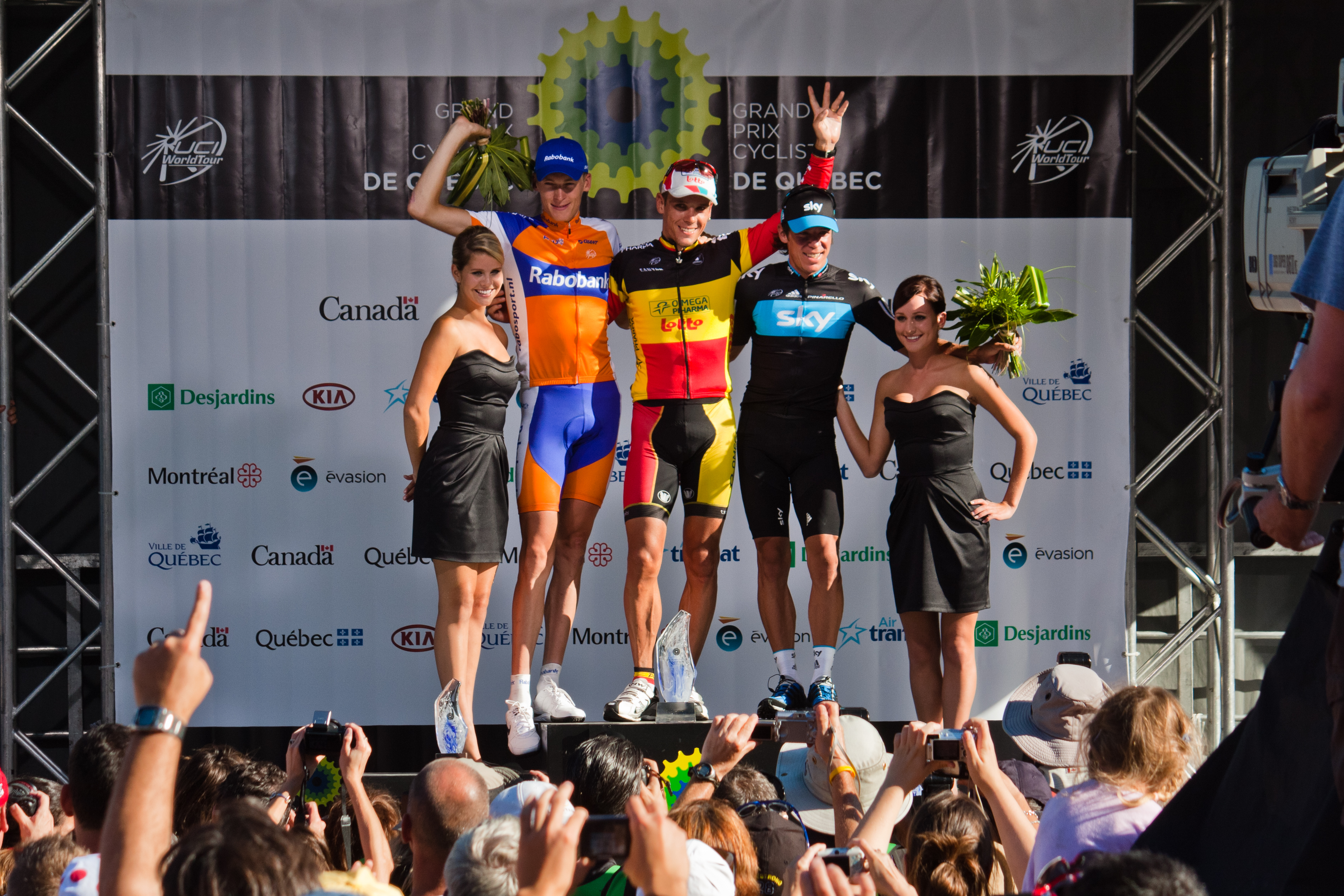 Winner Philippe Gilbert in the Belgian colors in the middle, 2nd place Robert Gesink from the Netherlands on the left and 3rd place Rigoberto Uran of Colombia on the right of the picture. Grand Prix Cycliste de Québec, GPCQM, 2011.